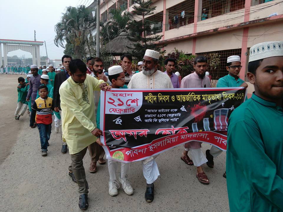 This is pabna islamia Madrassha international mother language & shaheed diboss celebration in 2017.